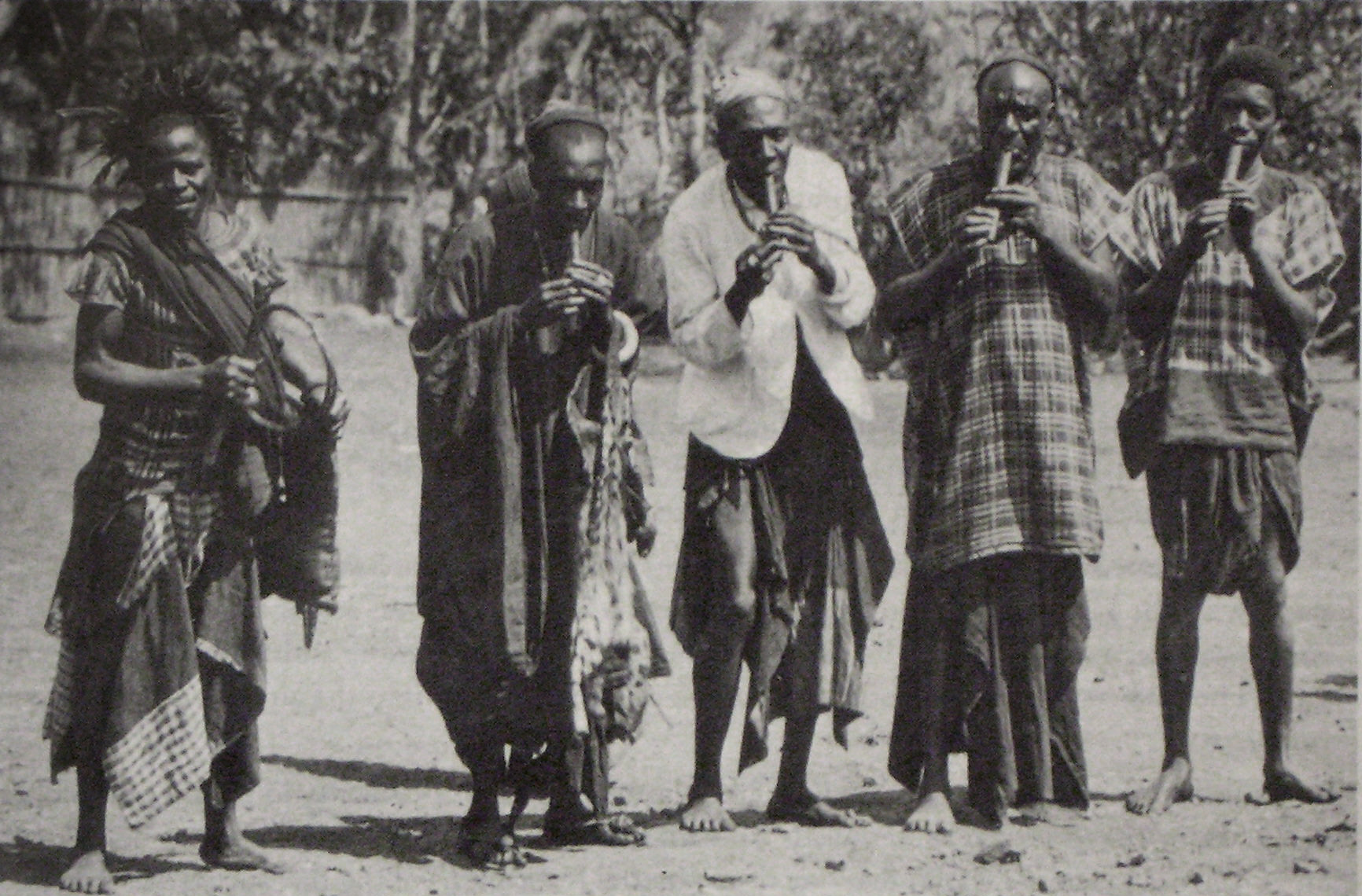 Four men play the holy "lela" flutes in Bali, Cameroon. The lela celebration is closely linked to the kingdom and members of the royal family direct the course of the celebrations.